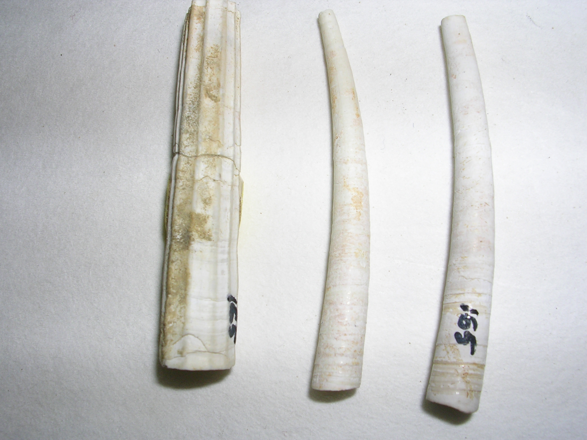 Dentalium sp. fossil (Pliocene) founded in Huelva, in a laboratory of practices of the Faculty of Sciences of the University of Corunna.